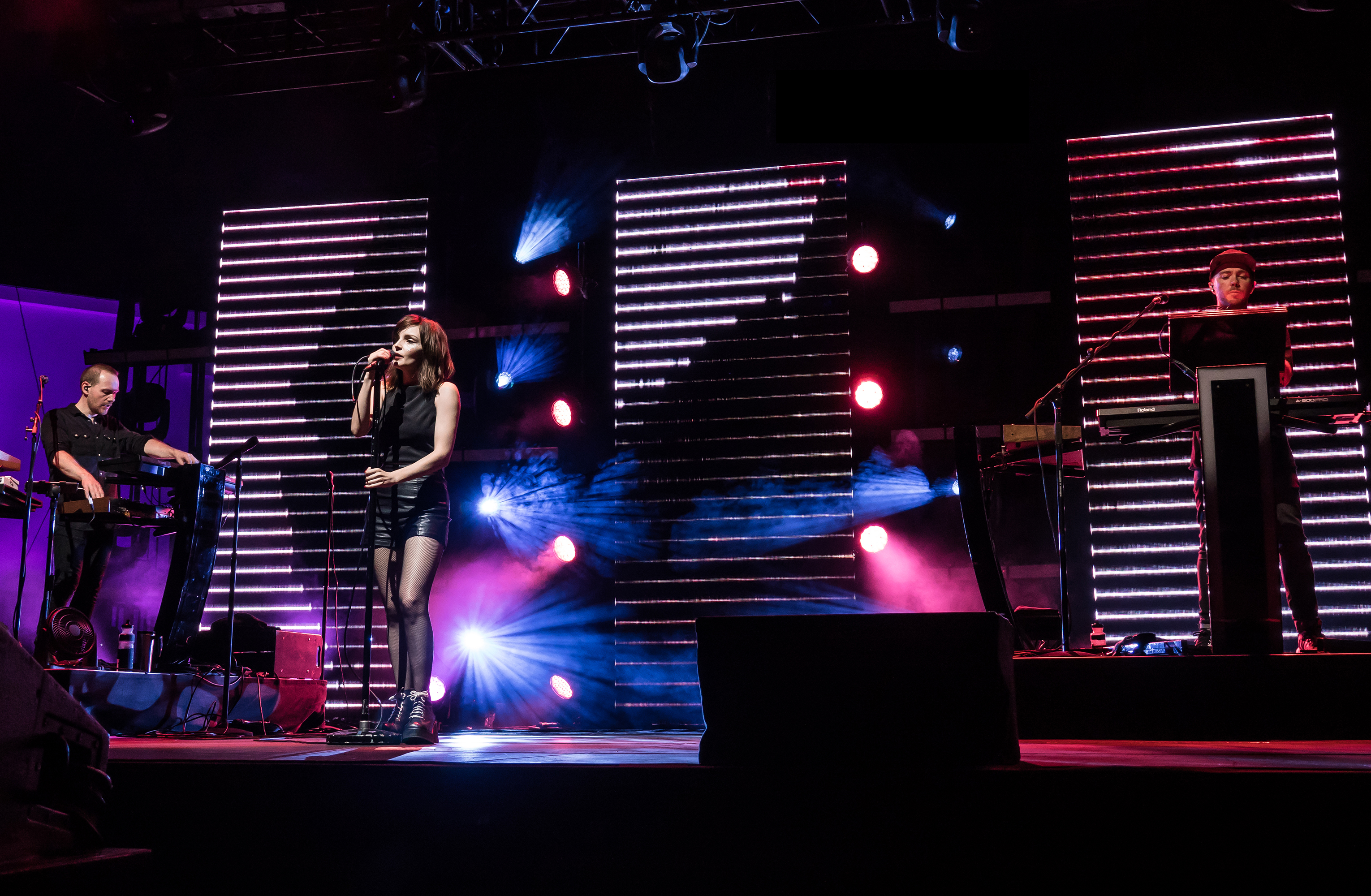 Chvrches performing live on the Fairbanks Lawn at Hollywood Forever in Los Angeles, California, on Monday, October 3rd, 2016. Best Coast opened.